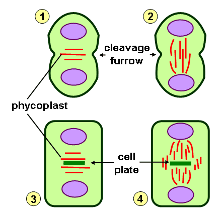 Schematic representation of types of cytokinesis in the green algae. 1) Phycoplast formation with cleavage furrow (e.g. Chlamydomonas) 2) Cleavage furrow and persistent telophase spindle (e.g. Klebsormidium) 3) Phycoplast and cell plate formation (e.g. Fritschiella) 4) Persistent telophase spindle/phragmoplast with cell plate formation (e.g. Coleochaete) References P.H. Raven, R.F. Evert, S.E. Eichhorn (2005): Biology of Plants, 7th Edition, W.H. Freeman and Company Publishers, New York, ISBN 0-7167-1007-2